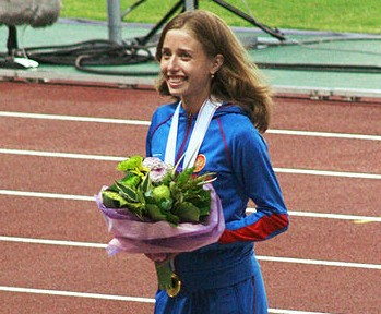 World Athletics Championships 2007 in Osaka - Russian 20 km race walk winner Olga Kaniskina after the victory ceremony